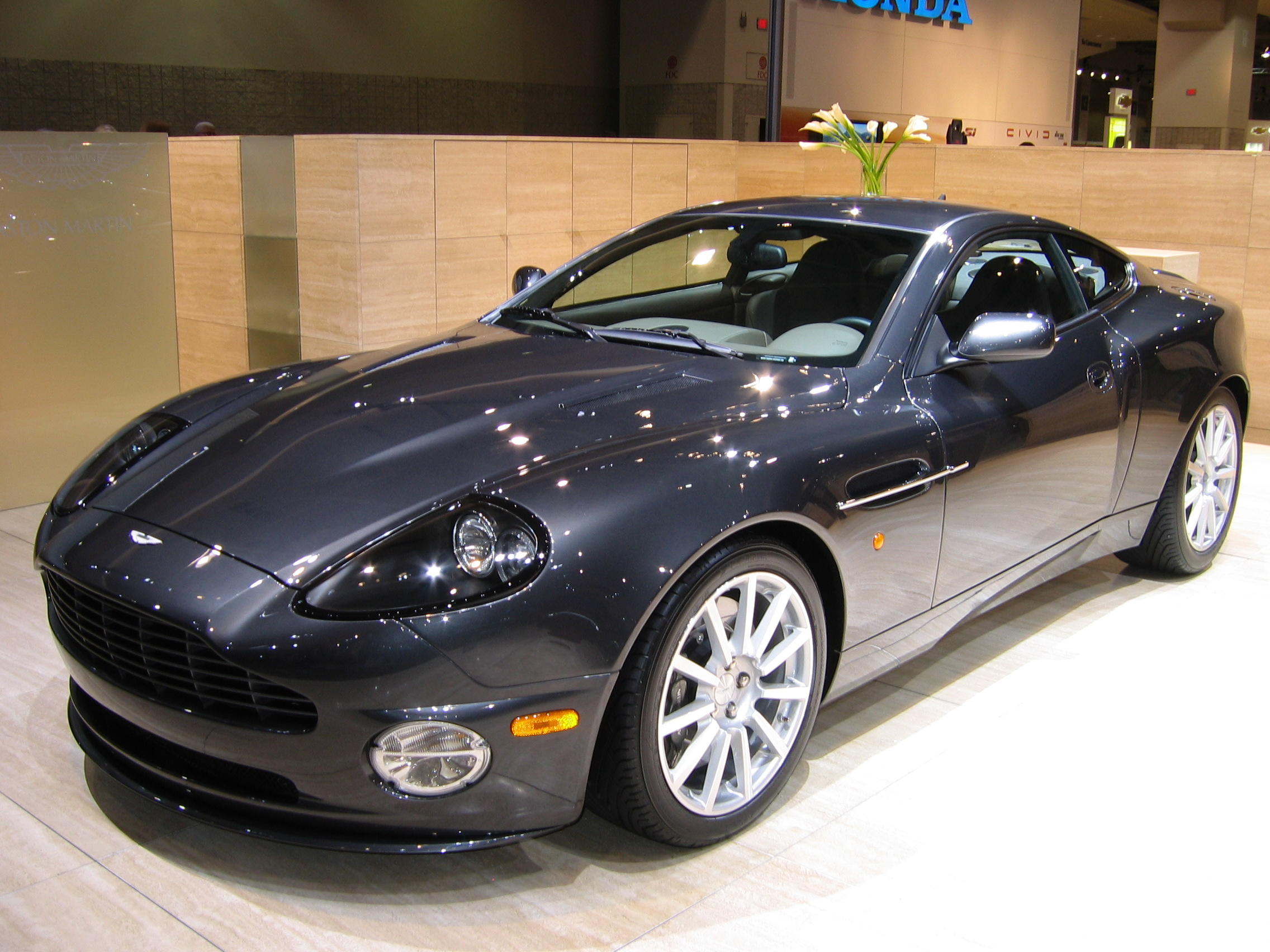 Aston Martin Vanquish S Photo by User:Kmf164, taken on January 27, 2006 at the Washington Auto Show.